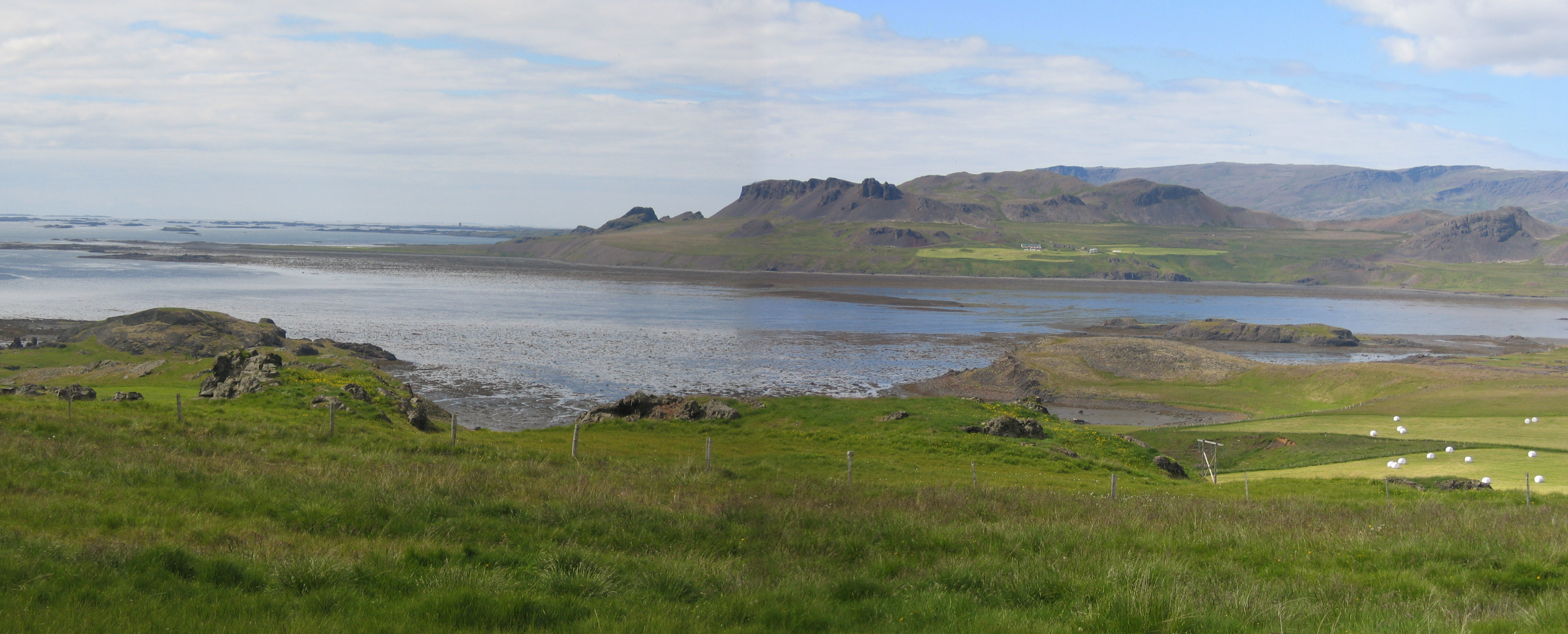 Króksfjarðarnes (?), Iceland photo by Salvor Gissurardottir July 2006 two photos stiched together